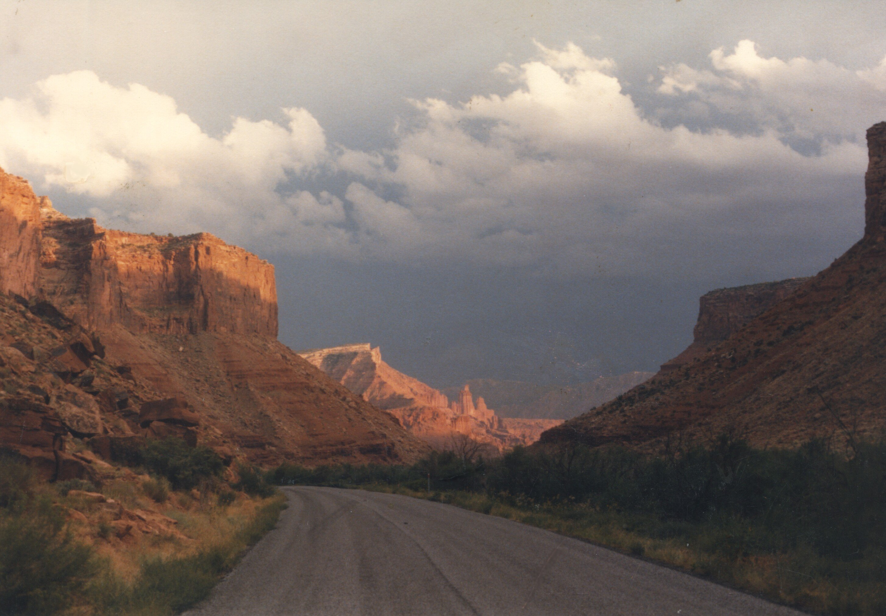 A typical scene along Utah State Route 128, in the distance are the Fisher Towers. This photo has been digitally modified, only to mitigate severe scratching on the negative.